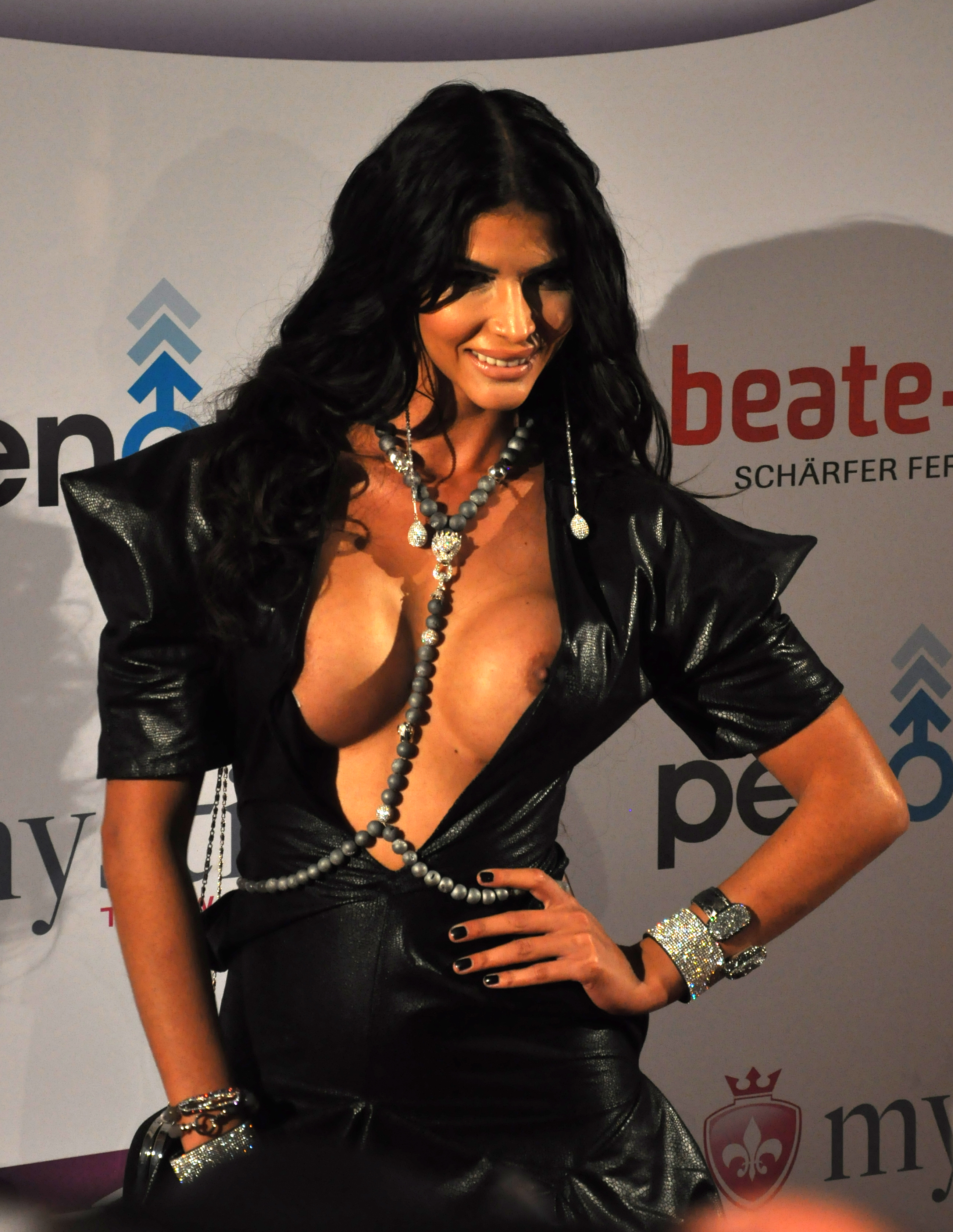 Micaela Schäfer at the ceremony of the Venus Awards 2014, Berlin